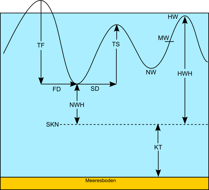 Abbreviations used in German literature for tidal constituents.